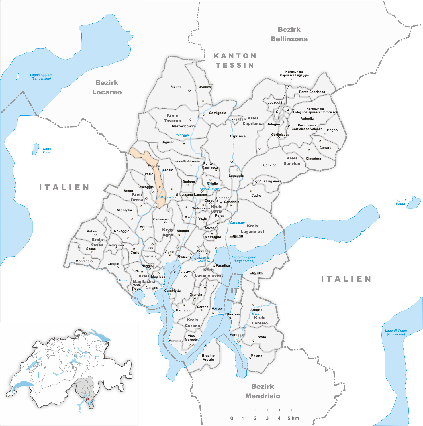 Municipality Mugena Artist: Tschubby